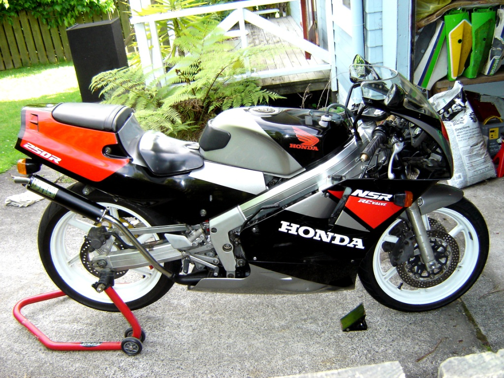 NSR250R MC18 R5 Seed colours with aftermarket silencers from JHA. Available new in NZ in 1989